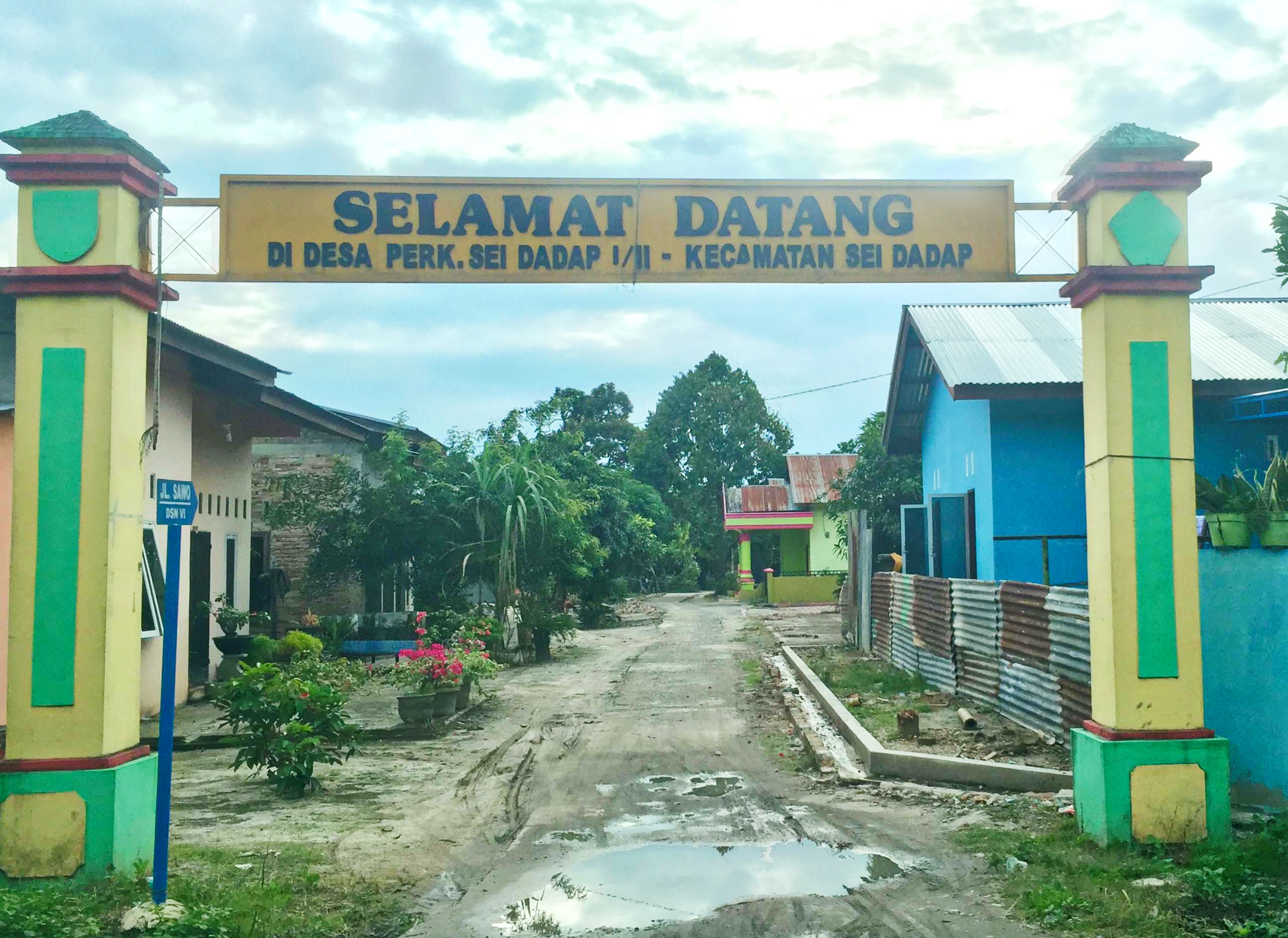 welcome gate to Perkebunan Sei Dadap I-II, Sei Dadap, Asahan